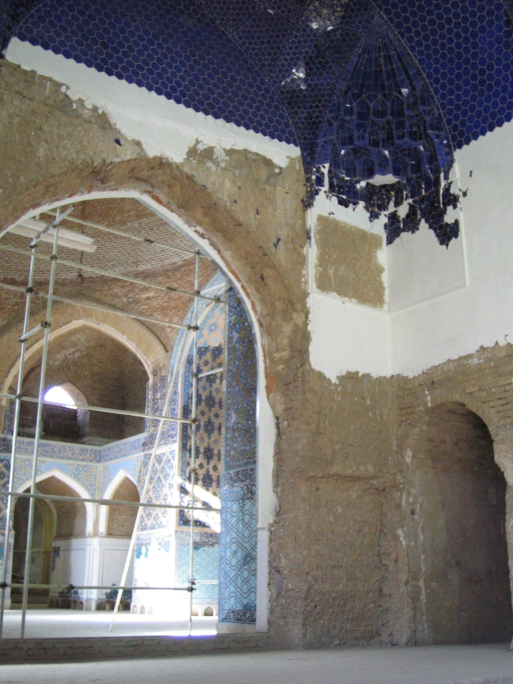 Interior of Masjed-e-Kabud (Blue Mosque) in Tabriz, Azerbaïdjan-e-sharghi, Iran. The mosque is currently being restored after it was destroyed by several earthquakes.